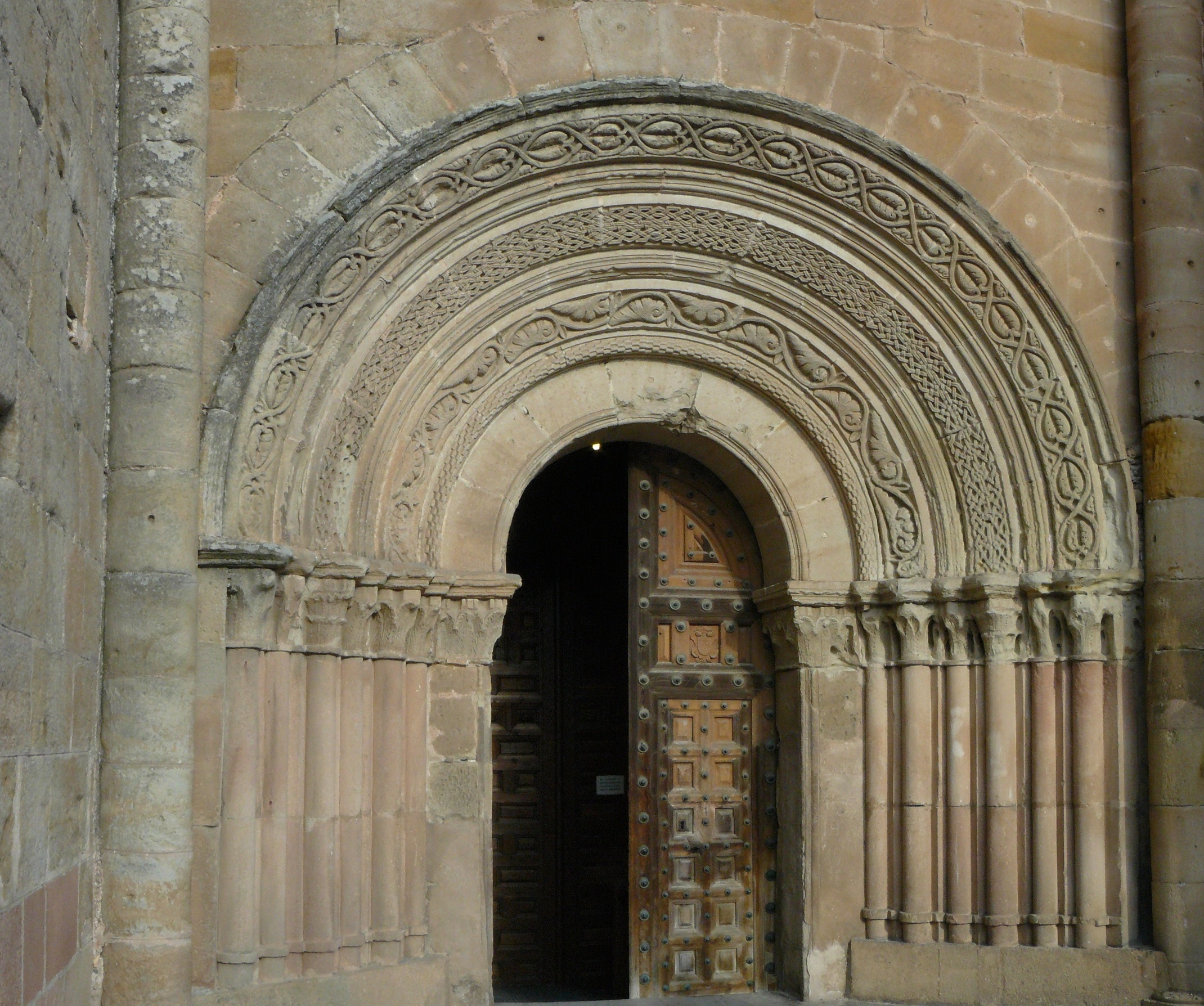 Western view of the Cathedral of SiGéunza, Guadalajara (Spain).Detail. Left gate.